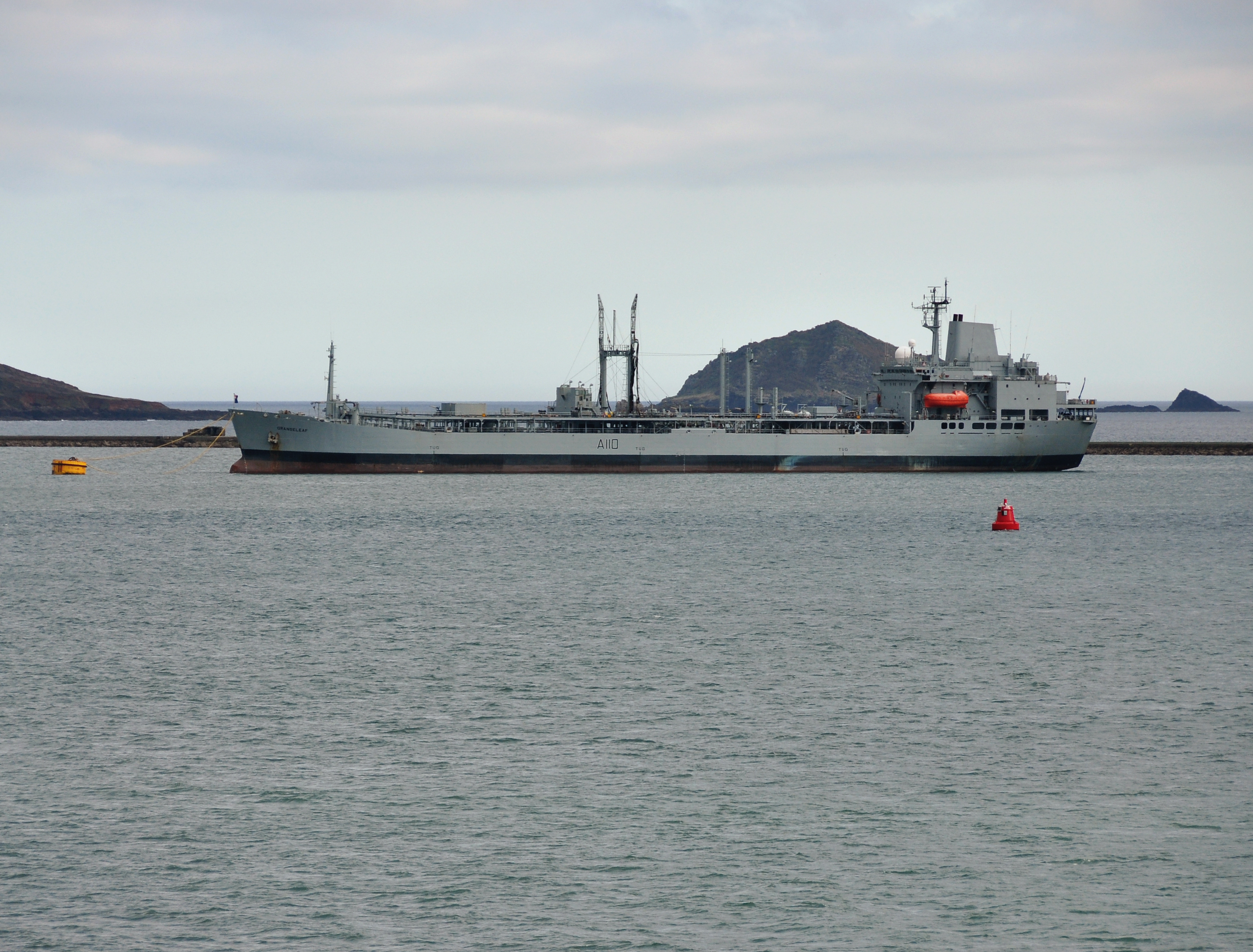 The RFA Orangeleaf moored in Plymouth Sound, Devon, with the breakwater and Mew Stone visible beyond it.